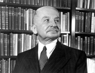 Ludwig von Mises in his library